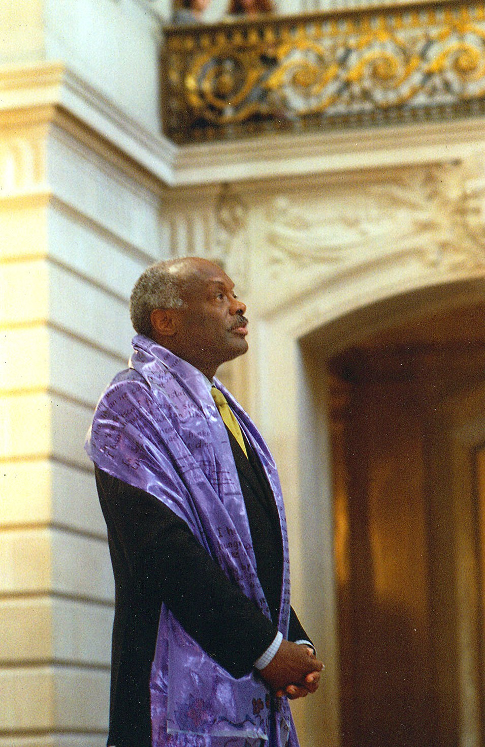 Willie L. Brown, Jr. was San Francisco Mayor 1996-2004. Here he is at an event in the rotunda of San Francisco city hall(Students from the Bessie Carmichael Elementary School celebrate 2nd annual Wrap the Bay) Photograph by Nancy Wong, 1999